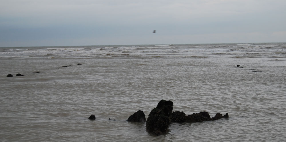 Wreck of the VOC ship Amsterdam at low tide.